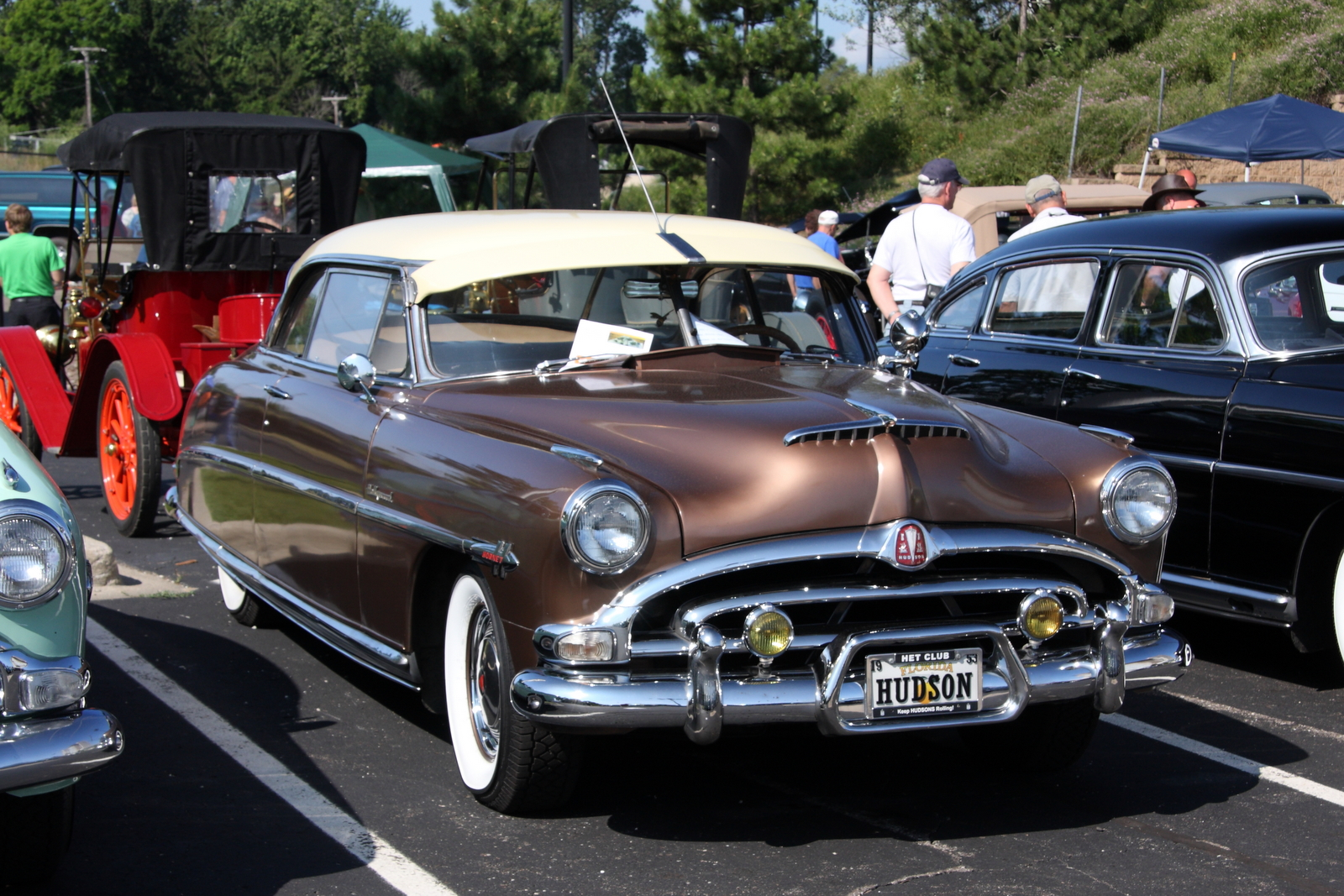 1953 Hudson Hornet Hollywood - two-door hardtop (no B-pillar).